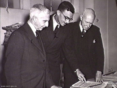 AWM caption : "CANBERRA, ACT. 19 JUNE 1945. MR GAVIN LONG, GENERAL EDITOR OF THE OFFICIAL HISTORY OF WORLD WAR TWO, CENTRE, DISCUSSING A MANUSCRIPT WITH COLONEL (COL) A S WALKER, MEDICAL HISTORIAN FOR WORLD WAR TWO, LEFT, AND COL A G BUTLER, MEDICAL HISTORIAN FOR WORLD WAR ONE, RIGHT, IN THE LIBRARY AT THE AUSTRALIAN WAR MEMORIAL."